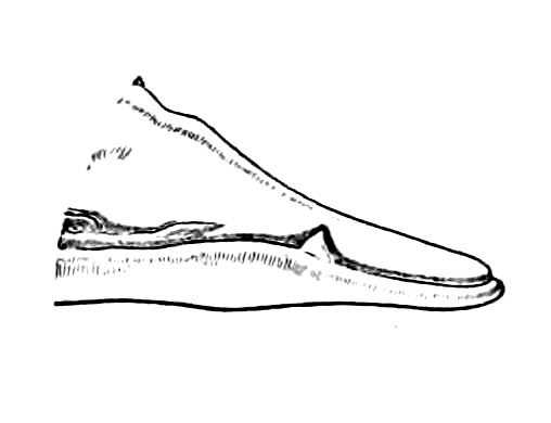 Head of male Mesoplodon bidens